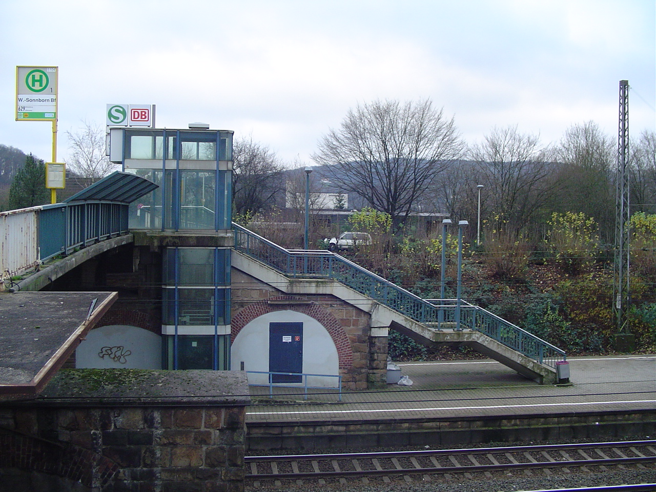 Wuppertal-Sonnborn S-Bahn stop, Germany